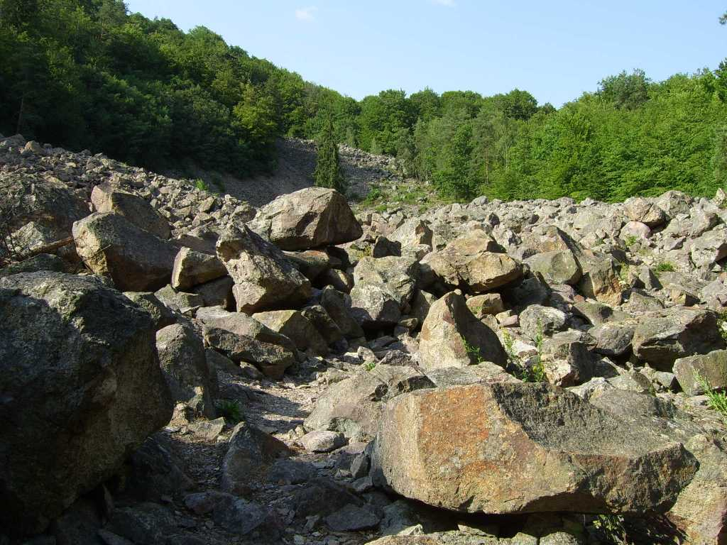 The view on the Nature Reserve Kamenné more (Stone sea).